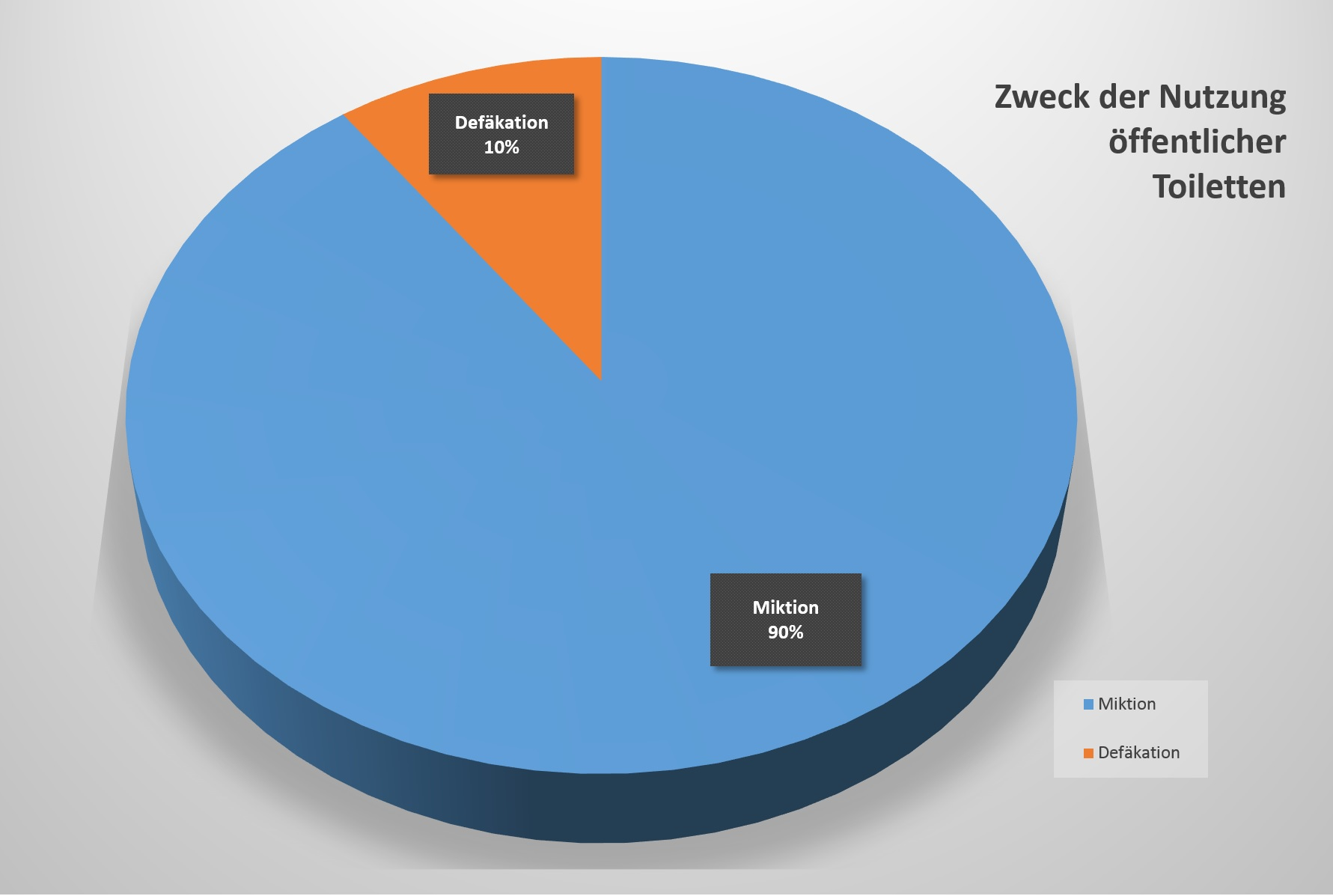 Purpose of public toilet usage, based on Kyriakou, D., & Jackson, J. (2011): We Know Squat About Female Urinals. Plumbing Connection, (Autumn 2011), 54 [1]